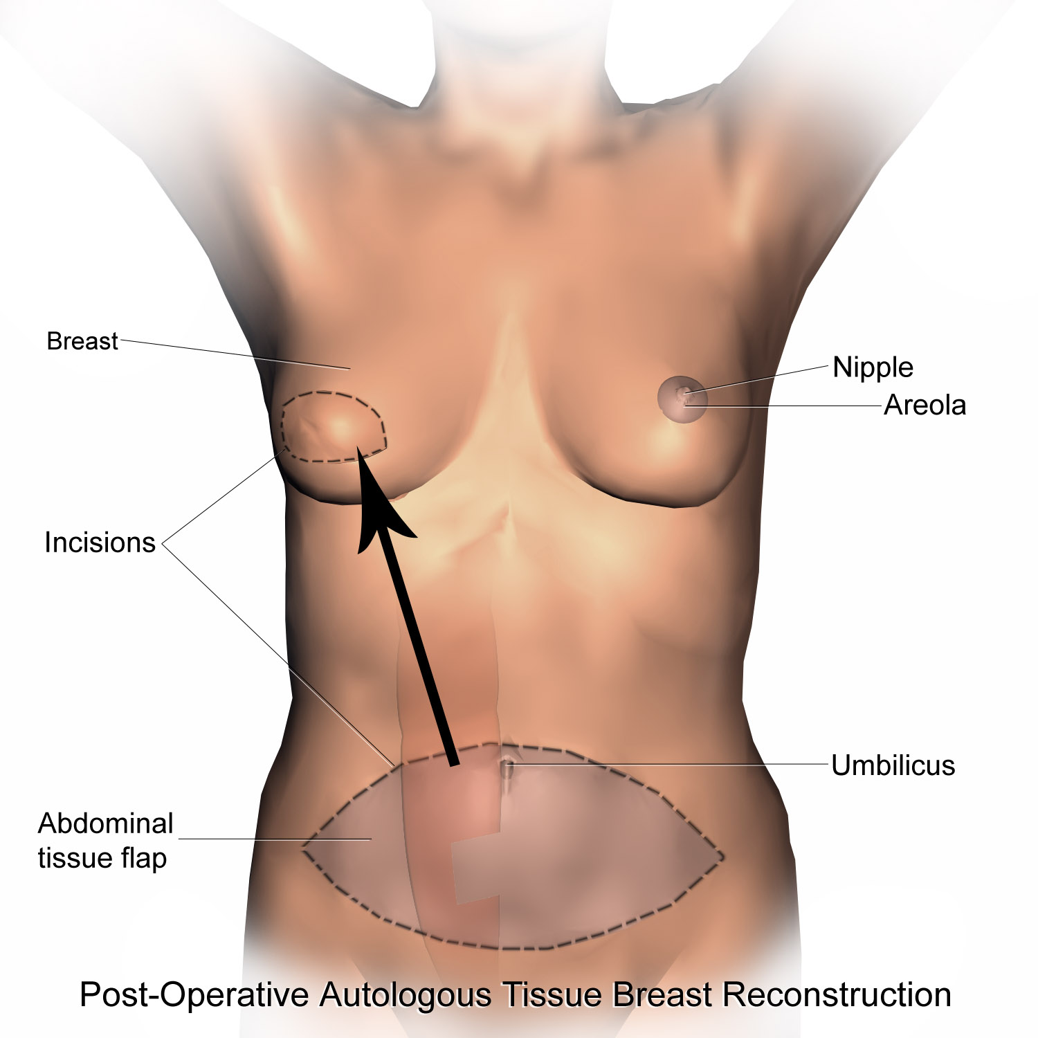 Breast Reconstruction - TRAM Procedure (Post-Op). See a related animation of this medical topic.